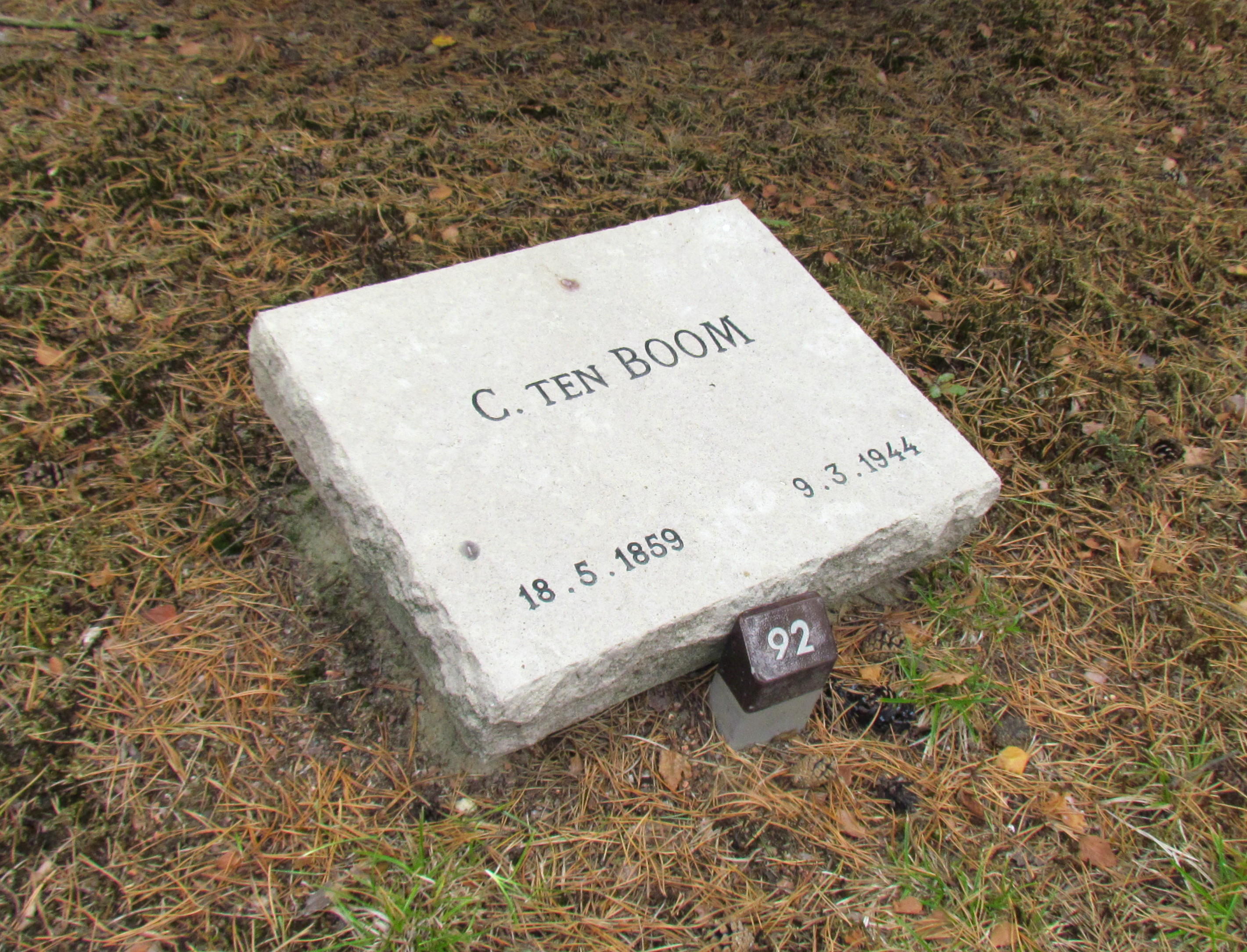 Gravestone for Casper ten Boom (1859-1944) on the Loenen war cemetery, NL